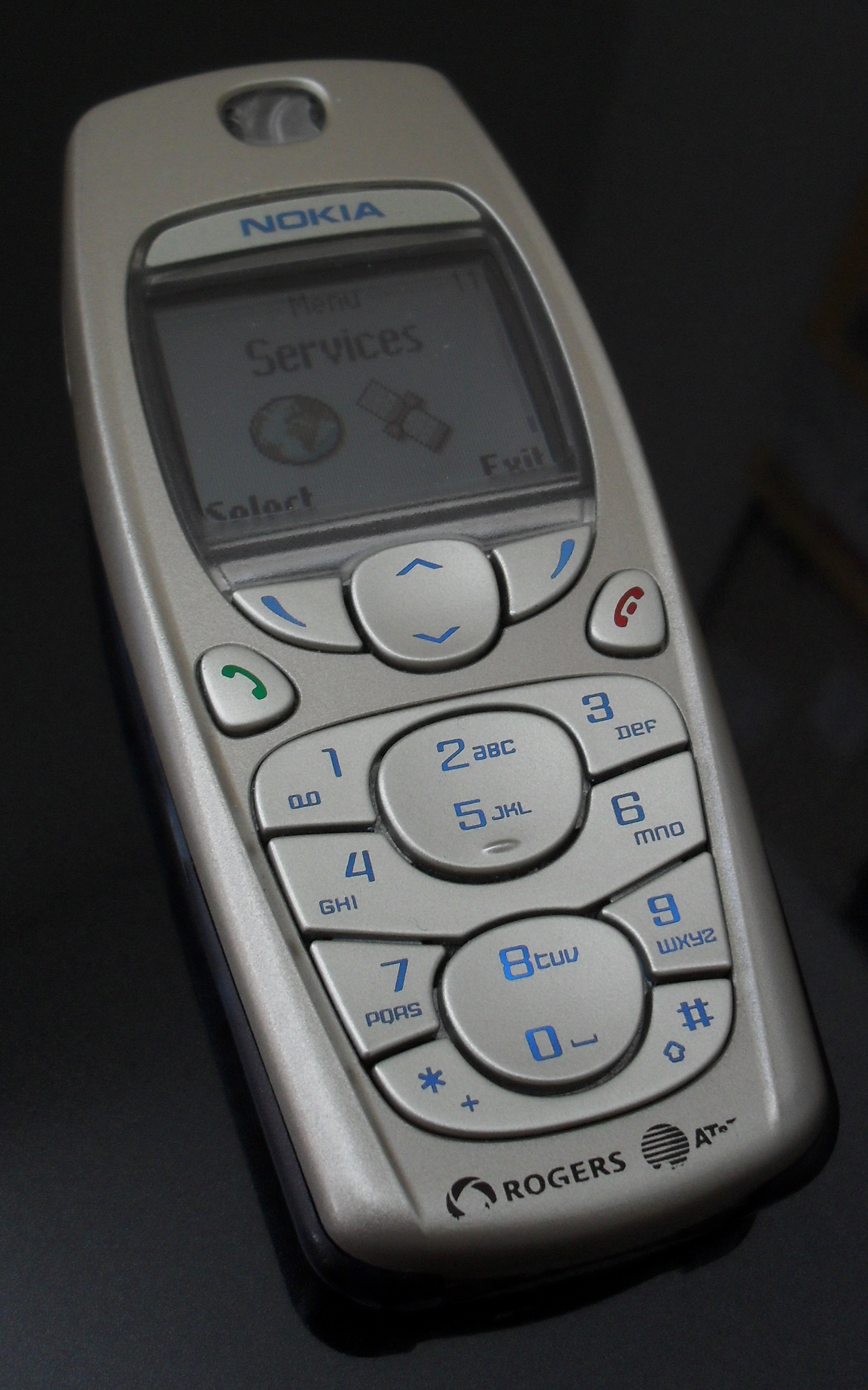 Nokia 3595